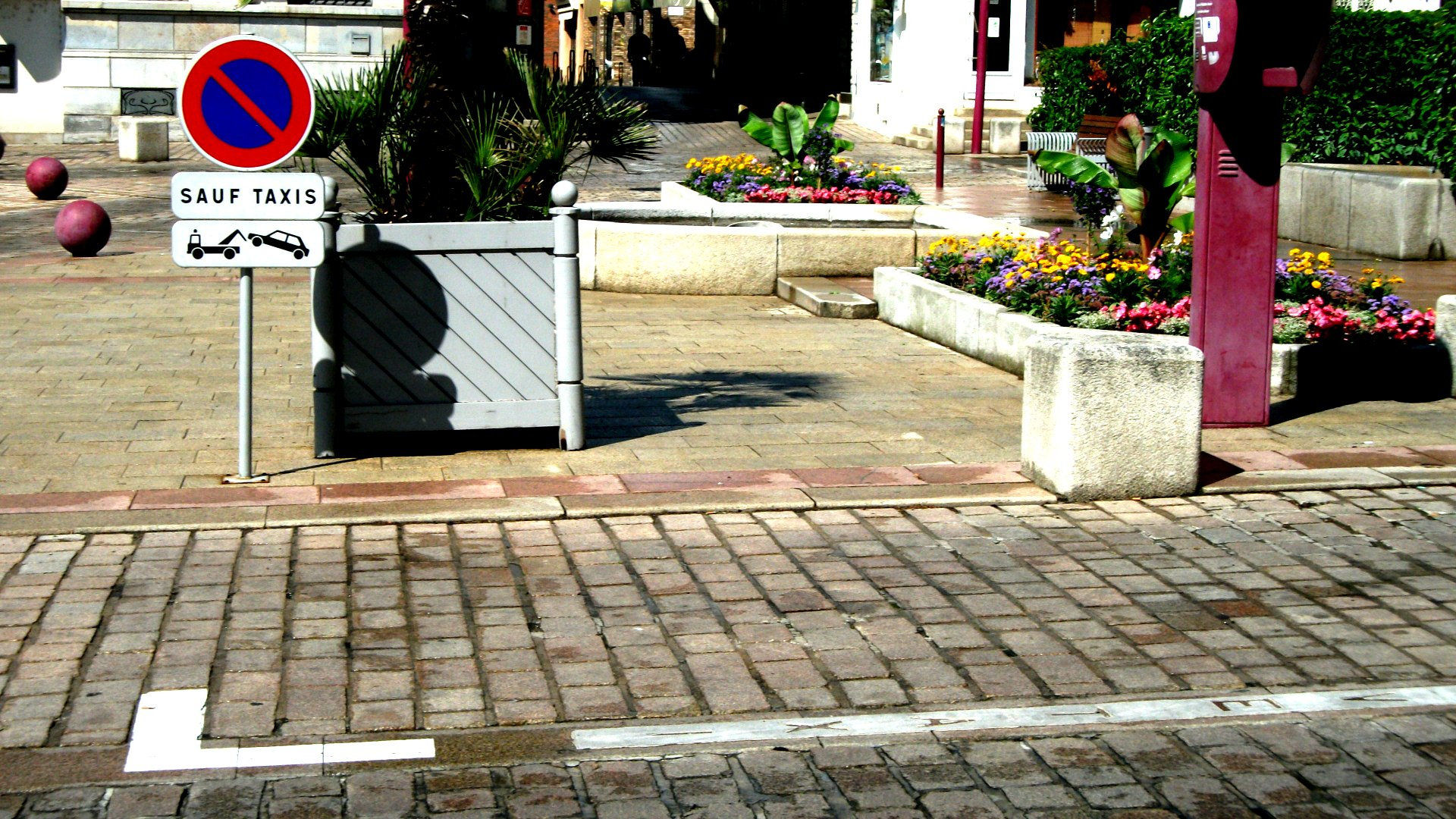 No parking except taxis. Victor Hugo Square, Cusset, Allier, Auvergne, France. Elevation: 275 m / 902 ft